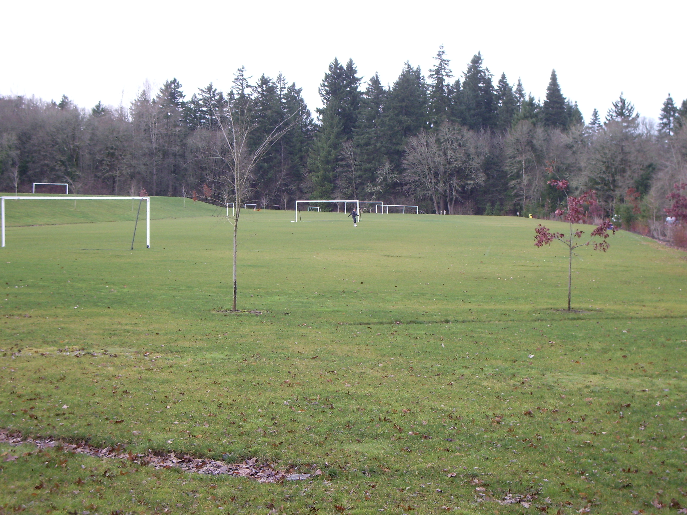 Soccer fields at Mary S Young State Park.